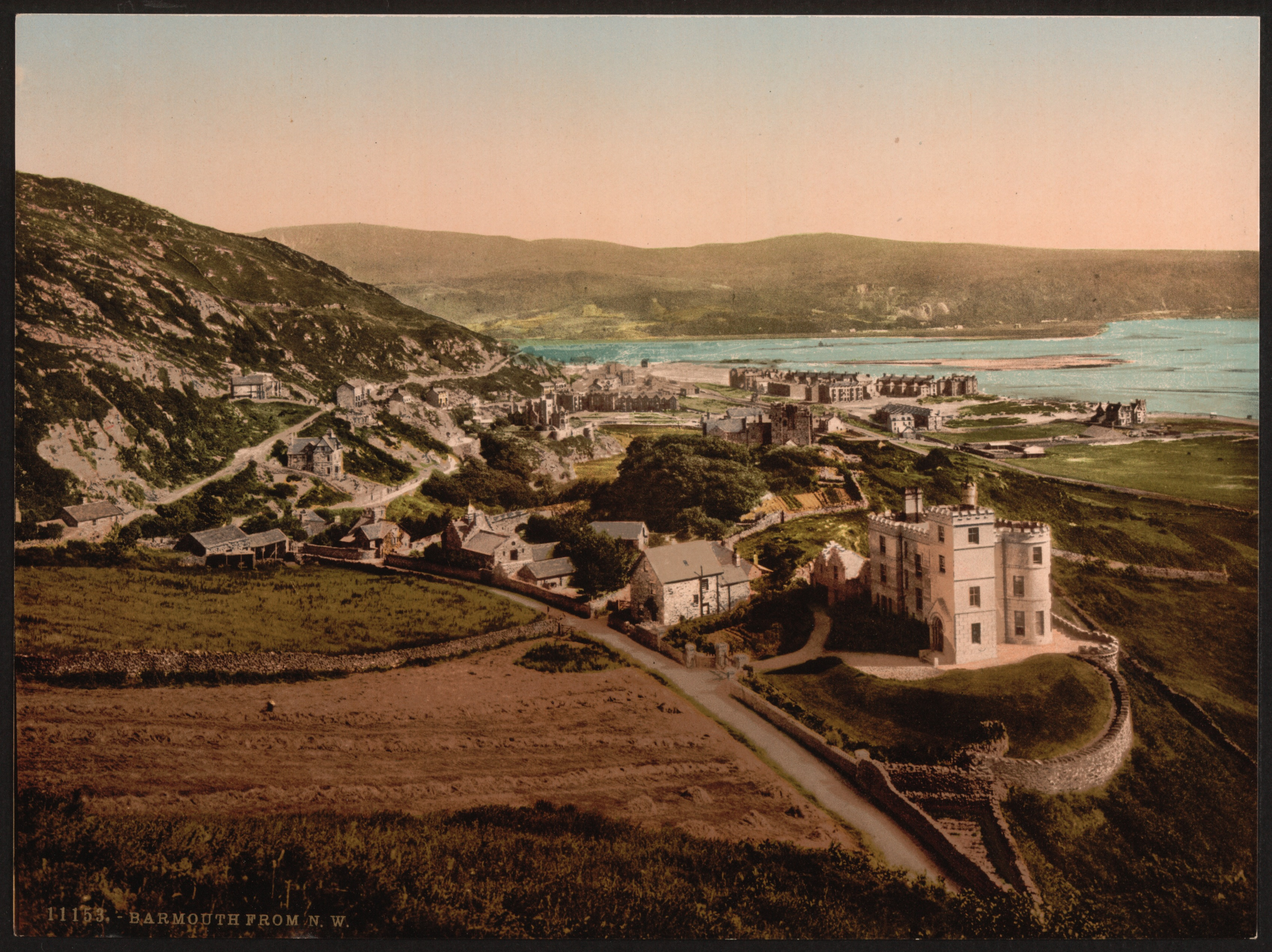 Title from the Detroit Publishing Co., catalogue J-foreign section. Detroit, Mich. : Detroit Photographic Company, 1905.; More information about the Photochrom Print Collection is available at Forms part of: Views of landscape and architecture in Wales in the Photochrom print collection.; Print no. "11153".